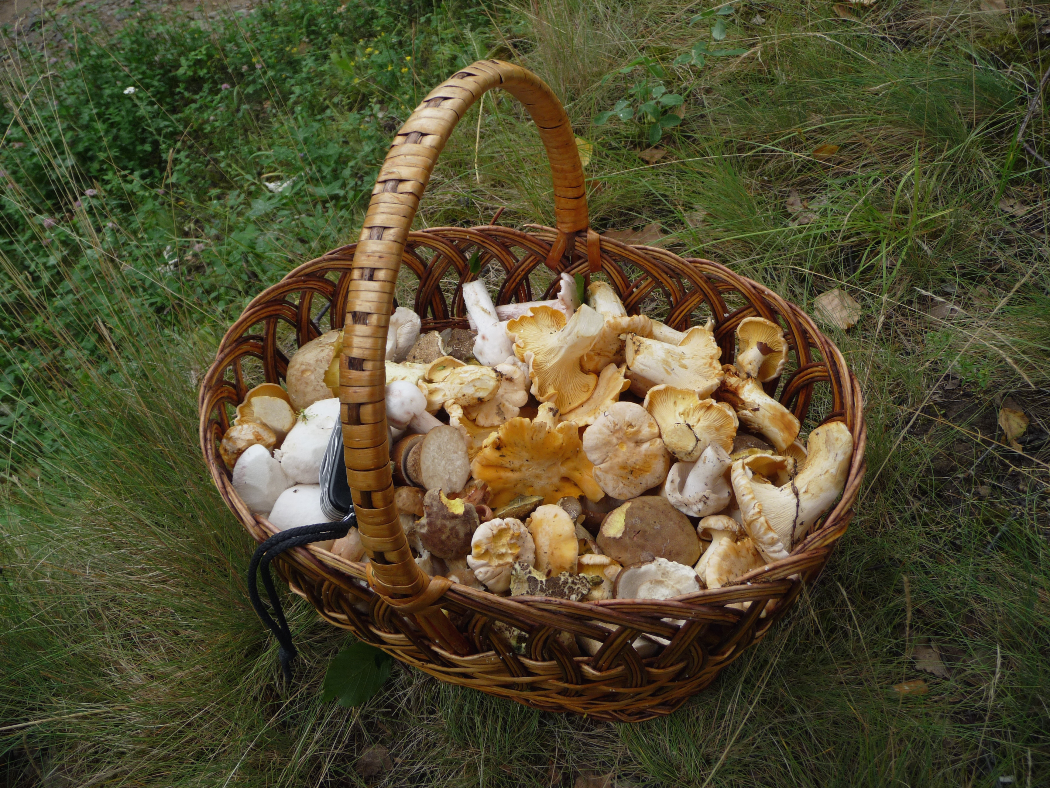 Picked edible fungi in basket. Cep (Boletus edulis and Boletus reticulatus), golden chanterelle Cantharellus cibarius, Xerocomus chrysenteron, Xerocomus subtomentosus and Russula vesca. Trophies of a mushroom hunt. Ukraine